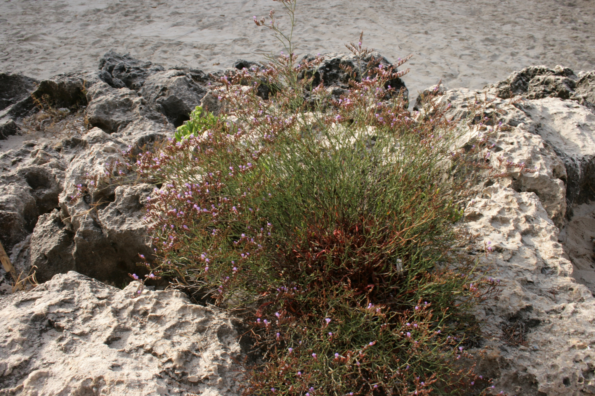 Limonium ramosissimum: Habitus